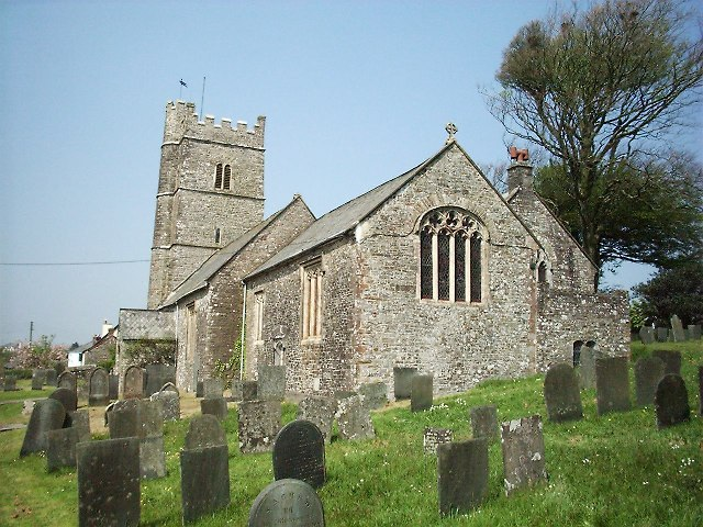 All Saints' parish church, Langtree, Devon, seen from the southeast